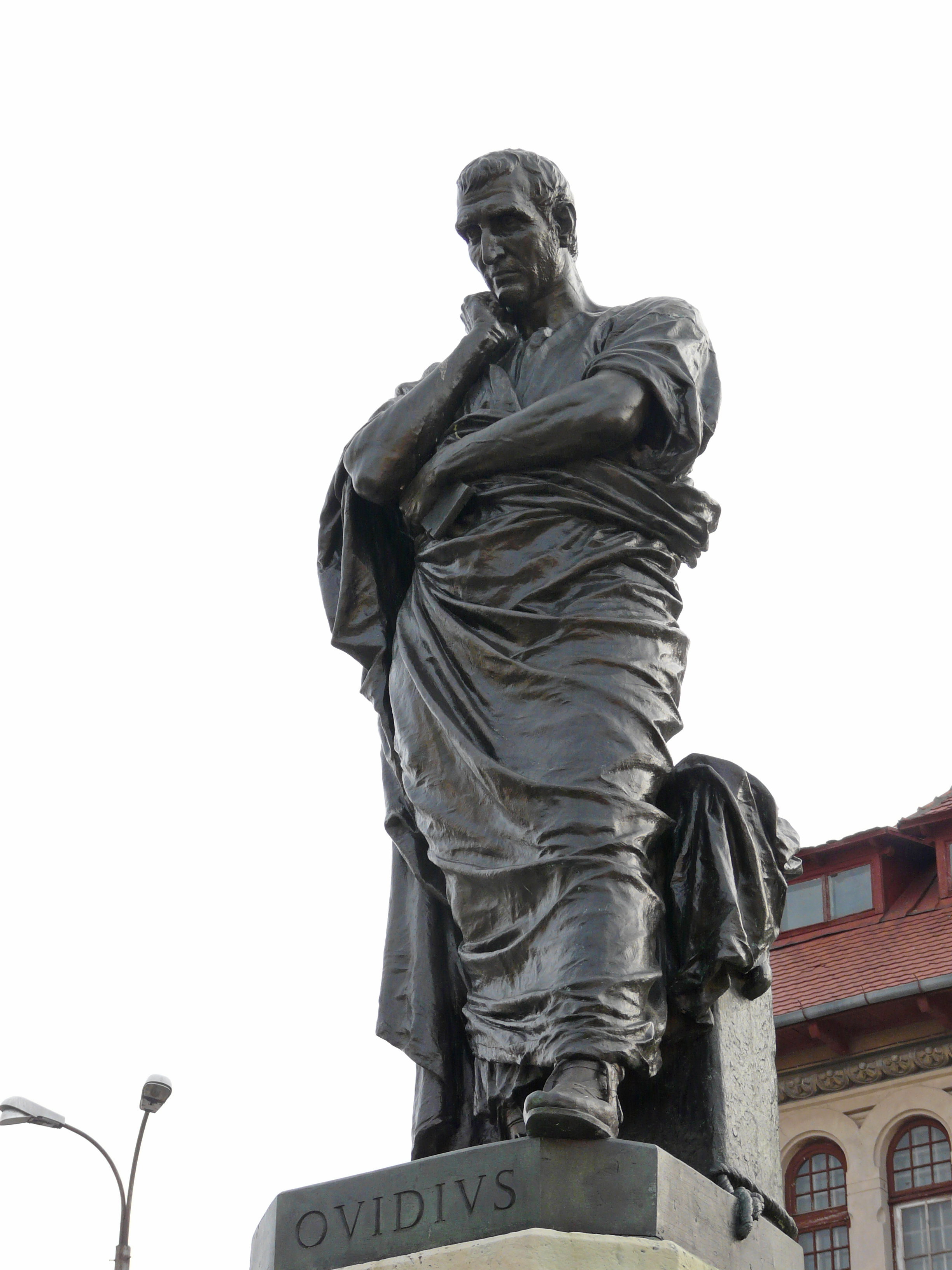 Statue of Roman poet Ovid in Constanţa (ancient Tomis, the city where he was exiled). Created in 1887 by the Italian sculptor Ettore Ferrari. In 1925, an identical replica was made in Sulmona, Italy (→Monument to Ovid in Sulmona)